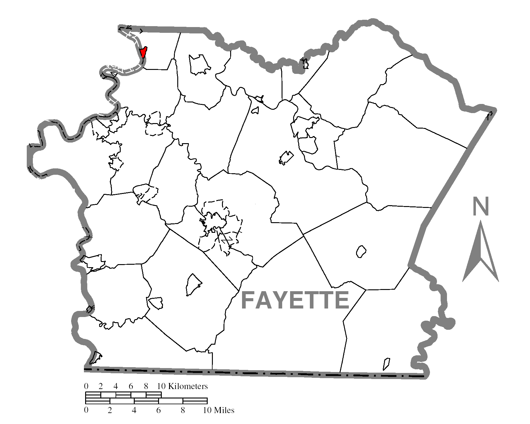 Map of Fayette County higlighting Fayette City.